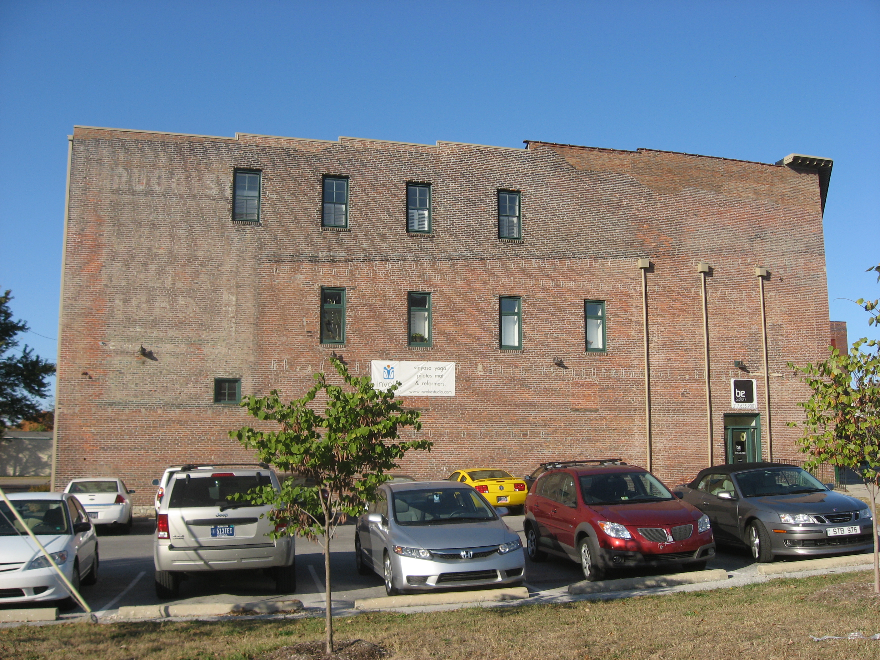 Side of the William Buschmann Block, located at 968-972 Fort Wayne Avenue in Indianapolis, Indiana, United States. Built in 1879, it is listed on the National Register of Historic Places.